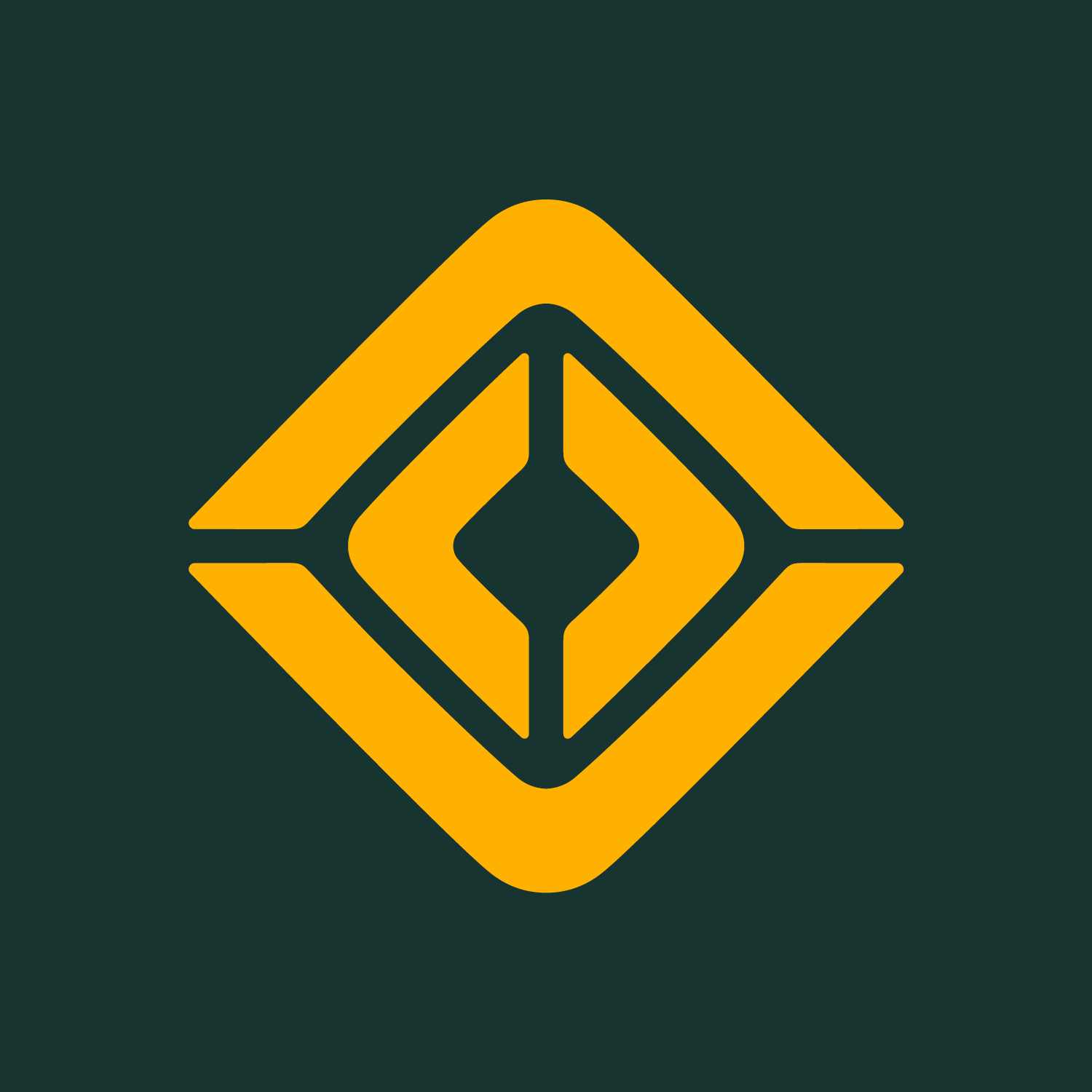 Orange logo for Rivian Automotive